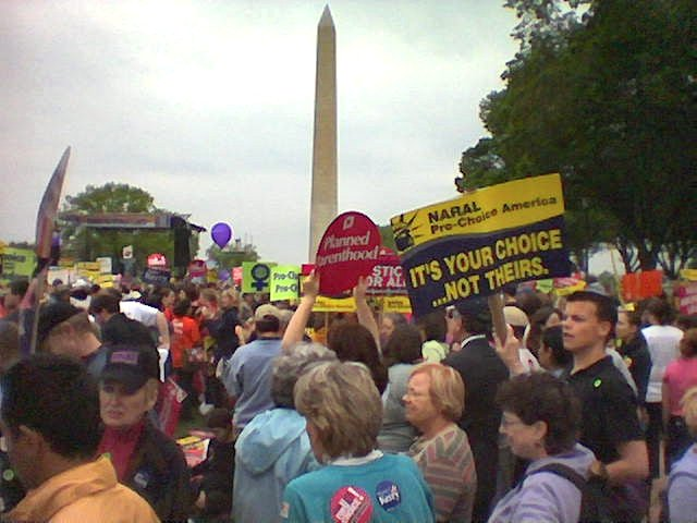 Photo from the 2004 March for Women's Lives, taken by me